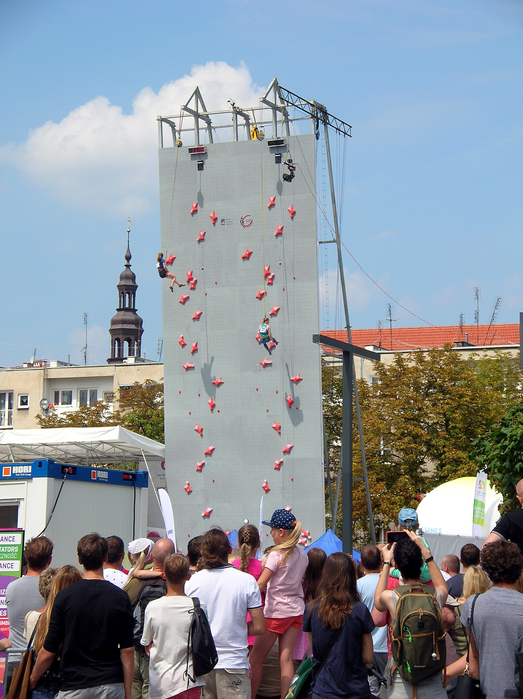 Sport climbing. World Games 2017, Wrocław.